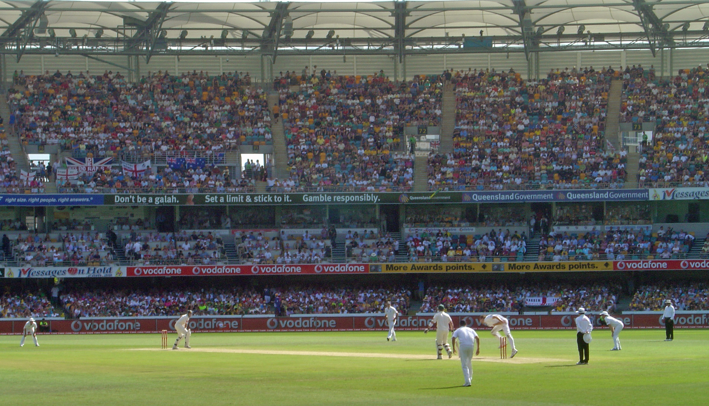 action from Day 3 of the first test: Australia v England